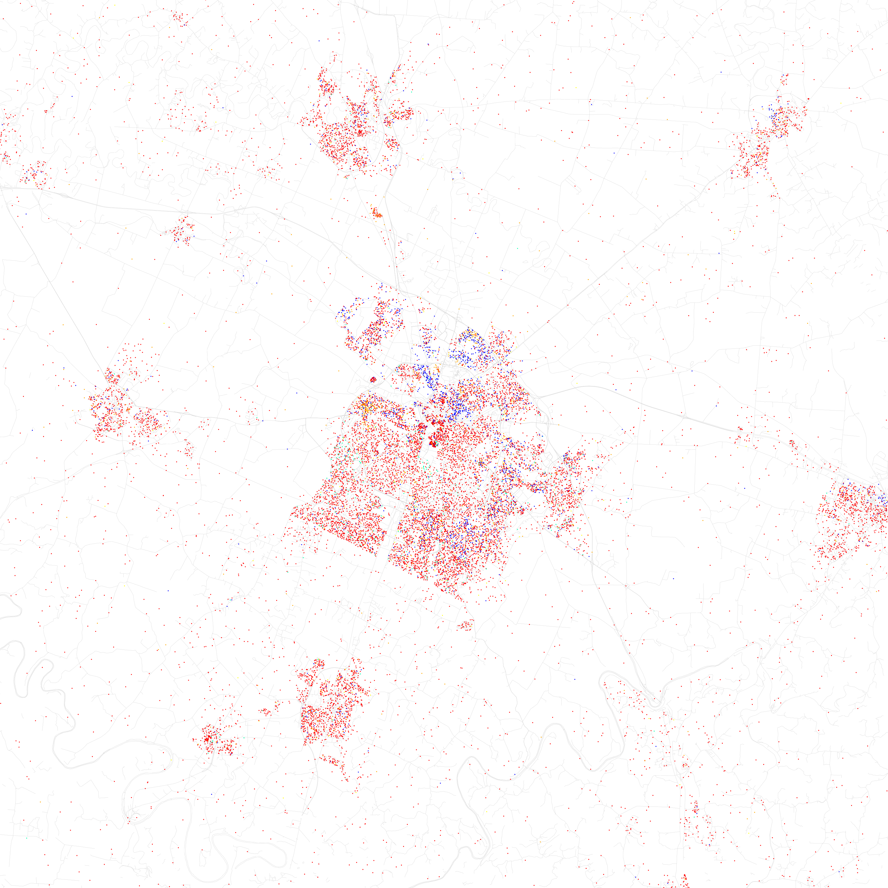 Maps of racial and ethnic divisions in US cities, inspired by Bill Rankin's map of Chicago, updated for Census 2010. Red is White, Blue is Black, Green is Asian, Orange is Hispanic, Yellow is Other, and each dot is 25 residents. Data from Census 2010. Base map © OpenStreetMap, CC-BY-SA